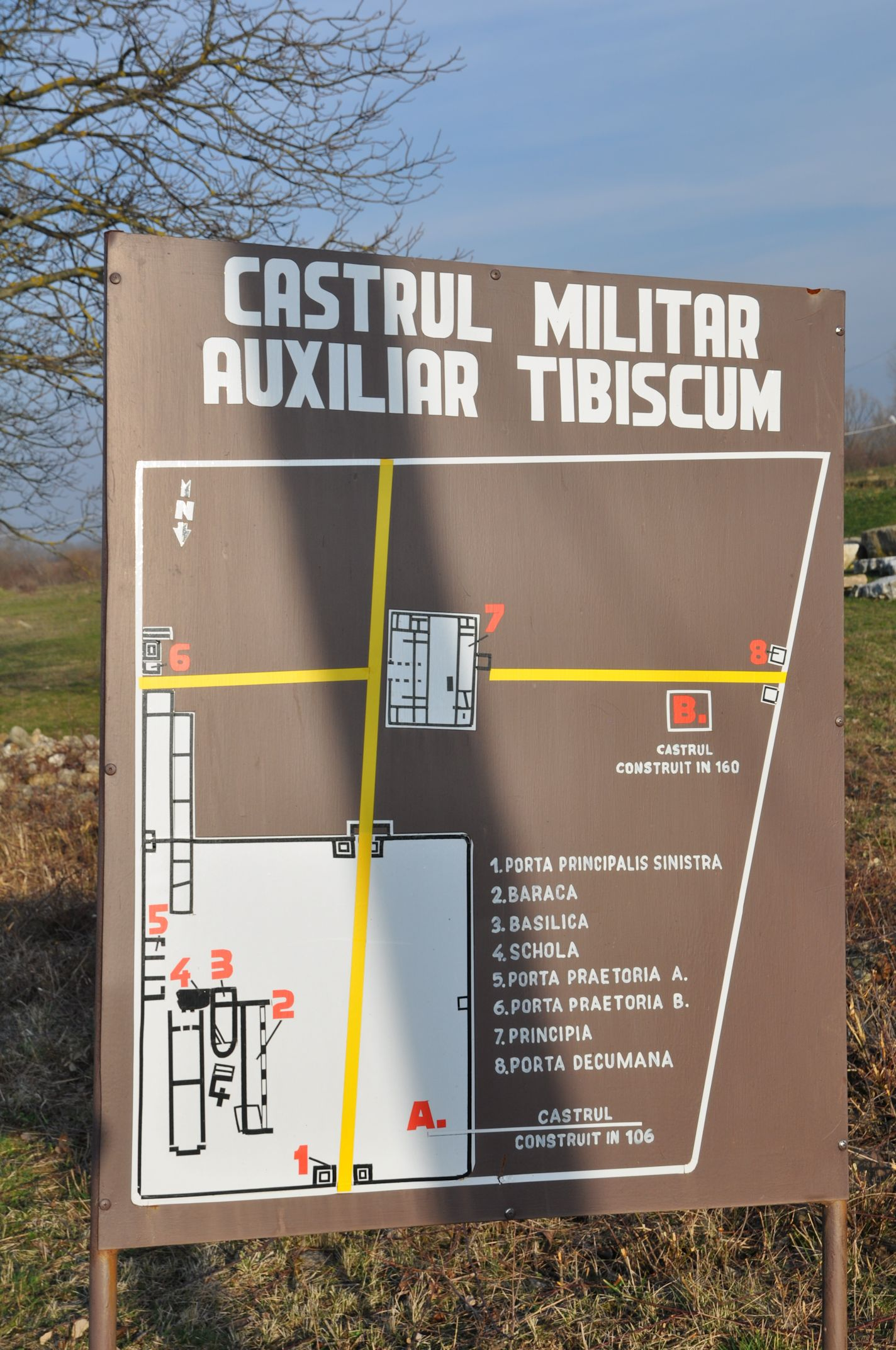 Roman fort Tibiscum - present day Jupa, Romania.